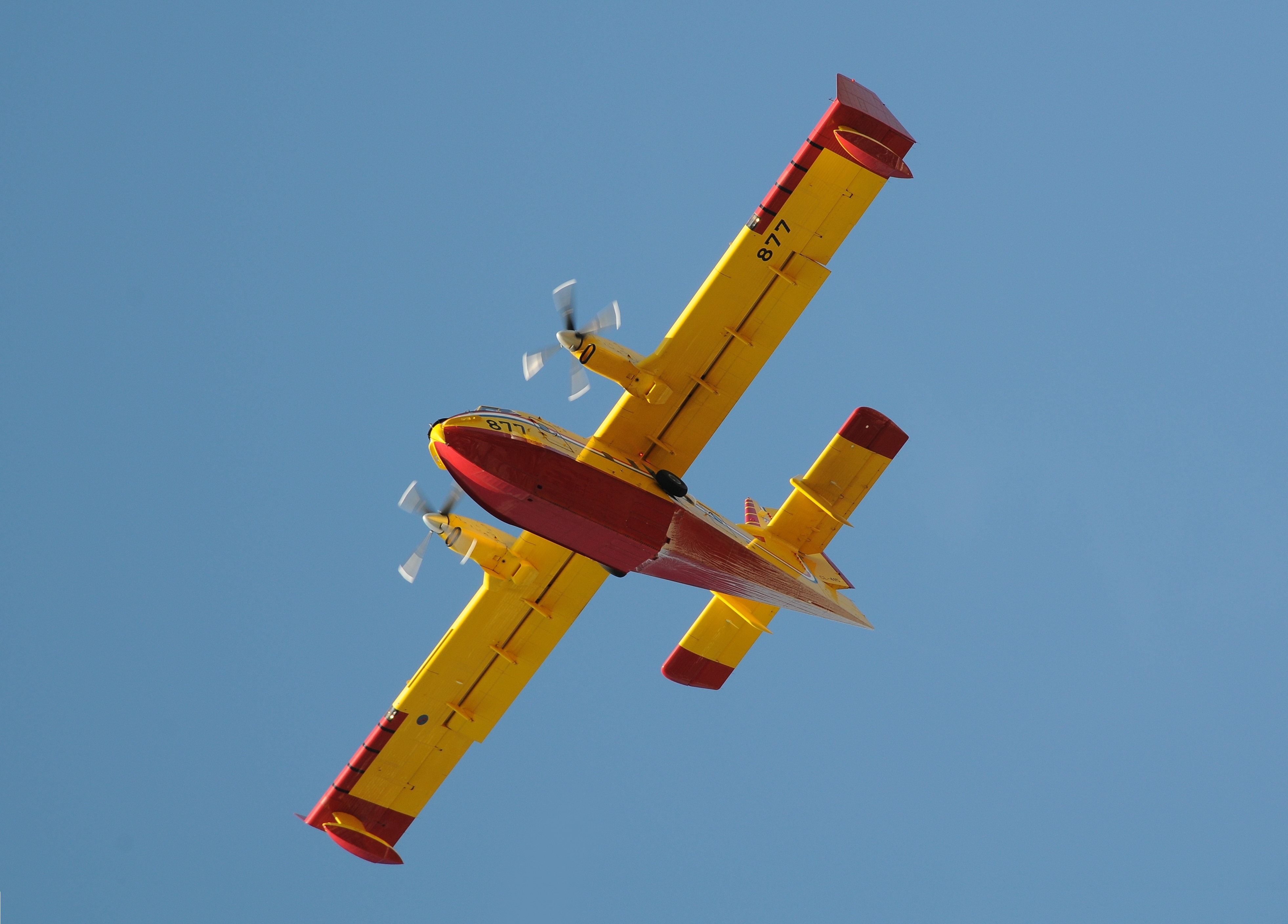 The Bombardier 415 (formerly Canadair CL-415) is a Canadian amphibious aircraft purpose-built as a water bomber.